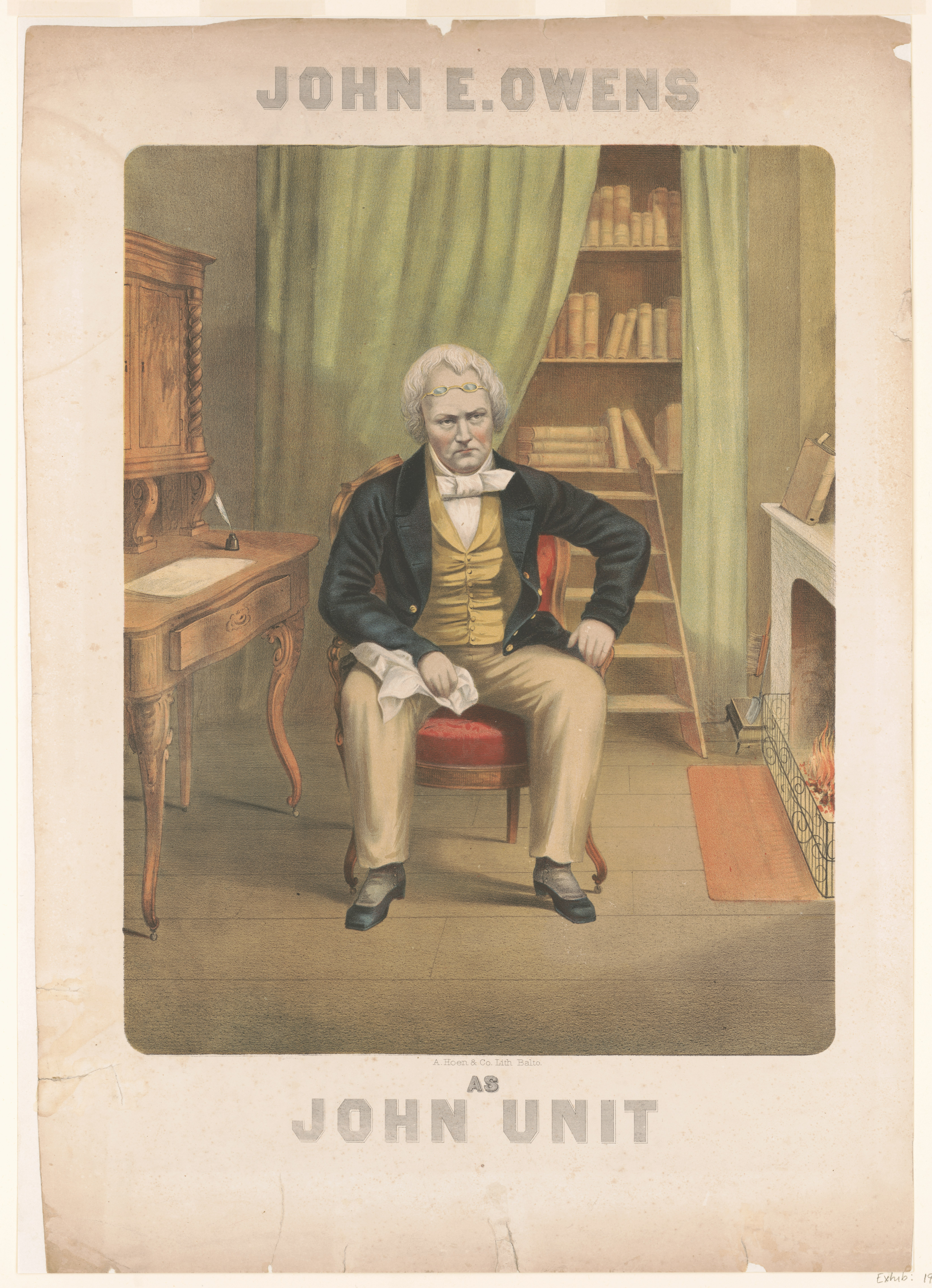 Title: John E. Owens as John Hunt Physical description: 1 print. Notes: This record contains unverified data from PGA shelflist card.; Associated name on shelflist card: Hoen, A. & Co.